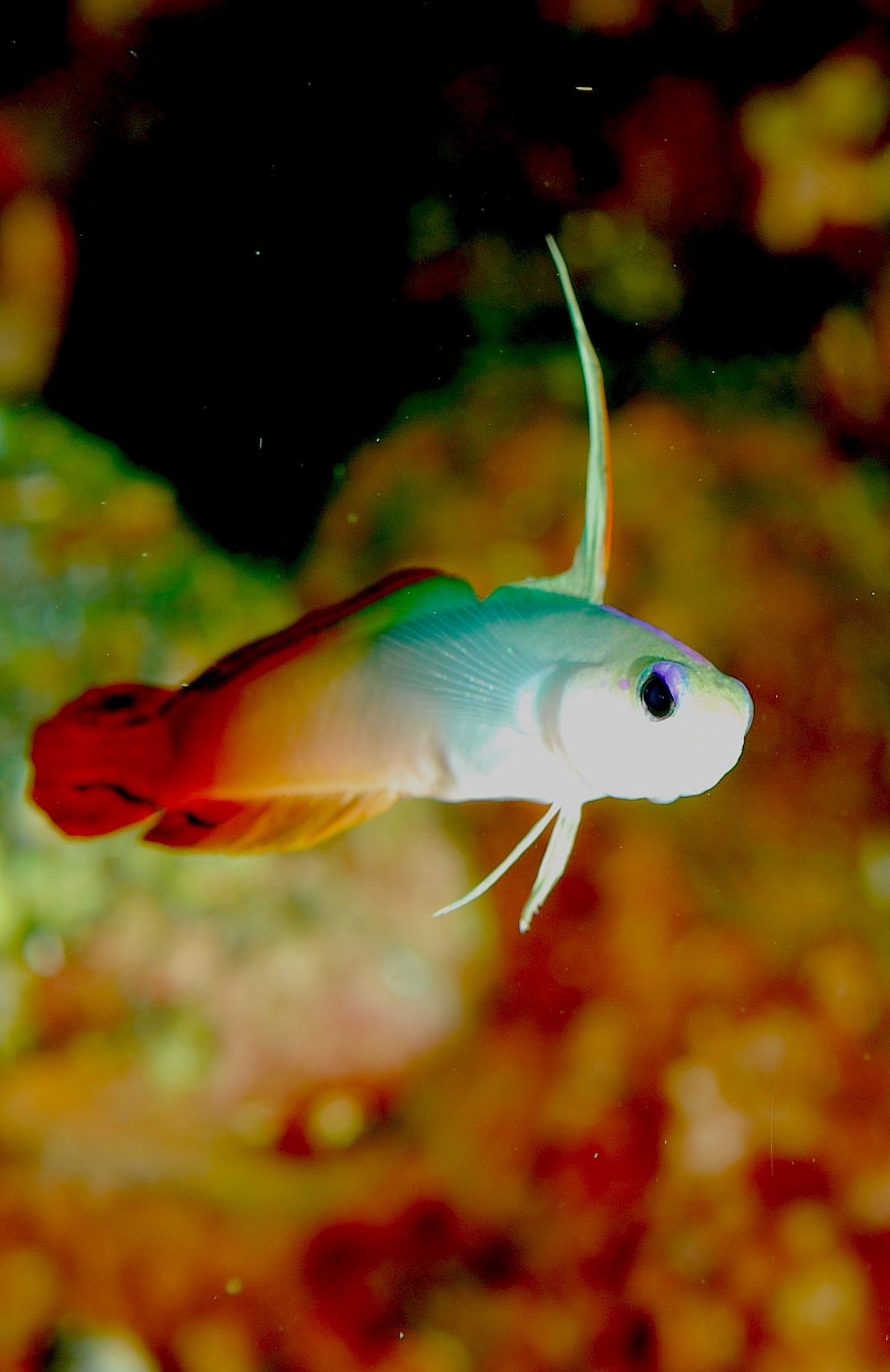 Nemateleotris magnifica, fire dartfish